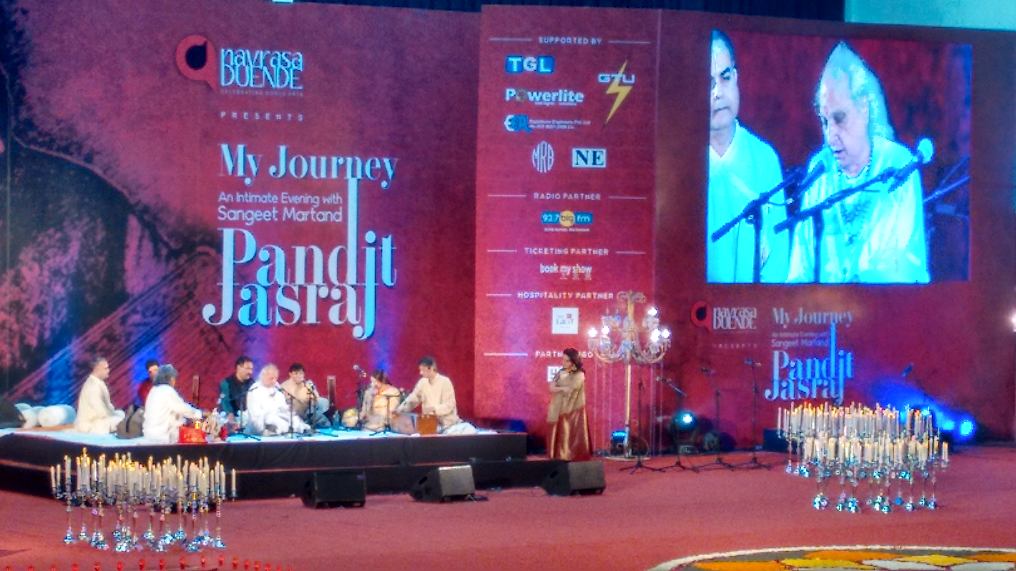 Pandit Jasraj at classical music concert - 'My Journey', an Intimate Evening with Pandit Jasraj at Jawaharlal Nehru Stadium, New Delhi organised by the production house Navrasa Duende